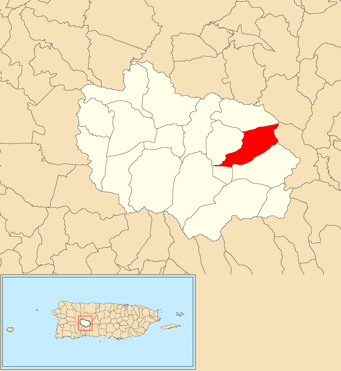 Vegas Abajo, Adjuntas, Puerto Rico locator map